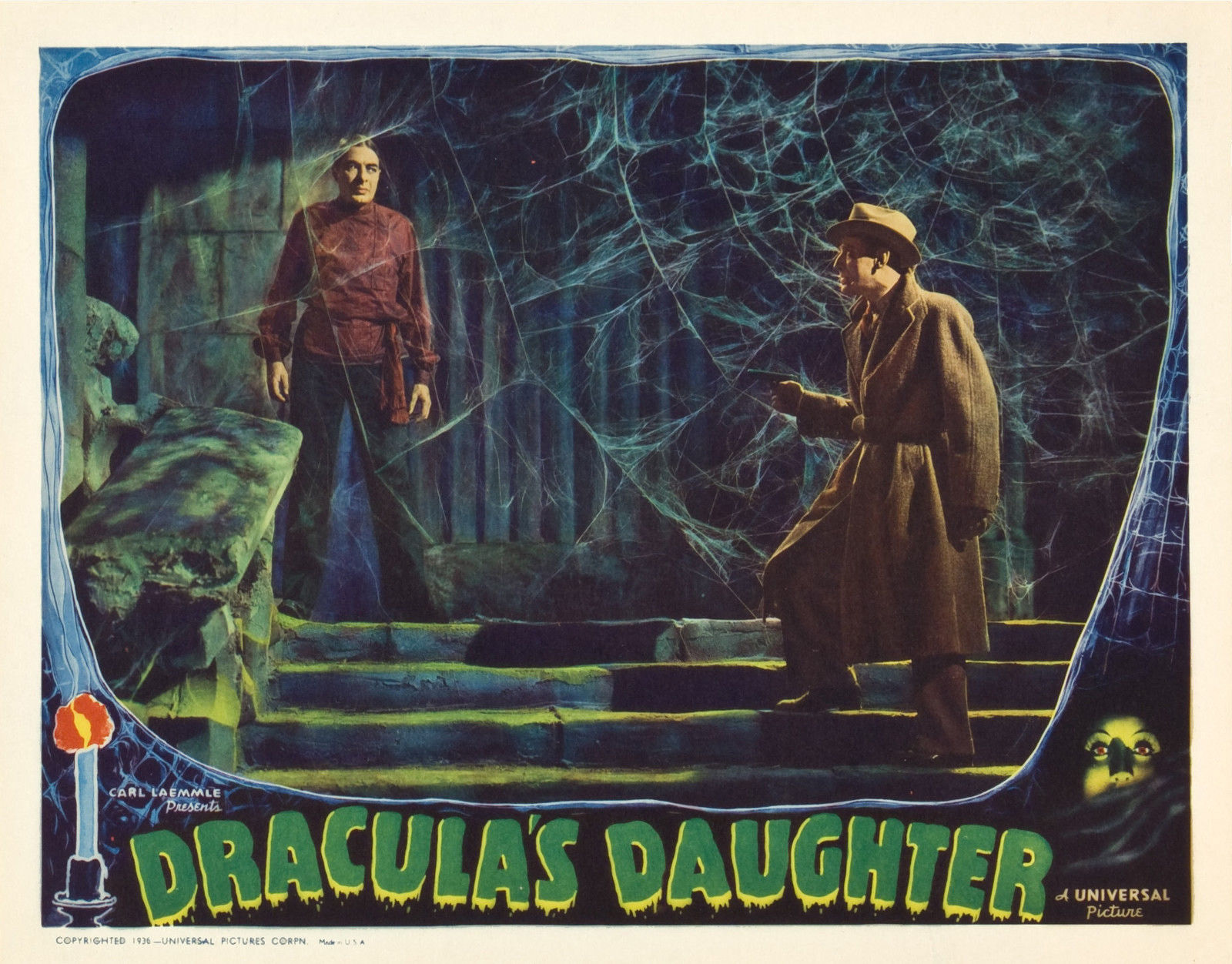 Colored lobby card for the 1936 film Dracula's Daughter, featuring Gloria Holden and Otto Kruger. This image is assumed to be in the public domain, as the original copyright was not renewed.